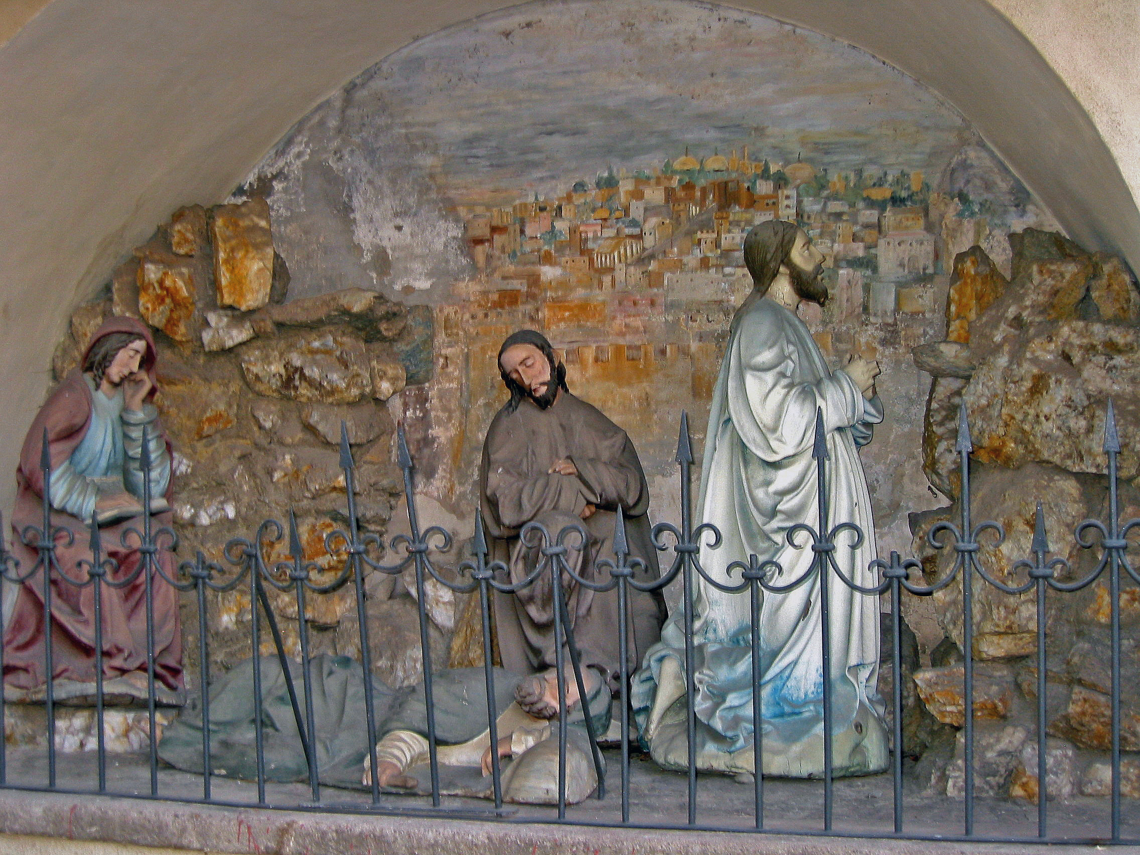 Late Gothic group of the Mount of olives